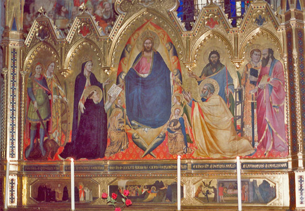 From left to right, the figures represent Saint Michael, Saint Catherine of Alexandria, the crowned Virgin Mary in a Dominican habit who presents her protégé Saint Thomas Aquinas to him, God, Saint Peter (kneeling), John the Baptist. The two on the far right are Saint Lawrence and Saint Paul.